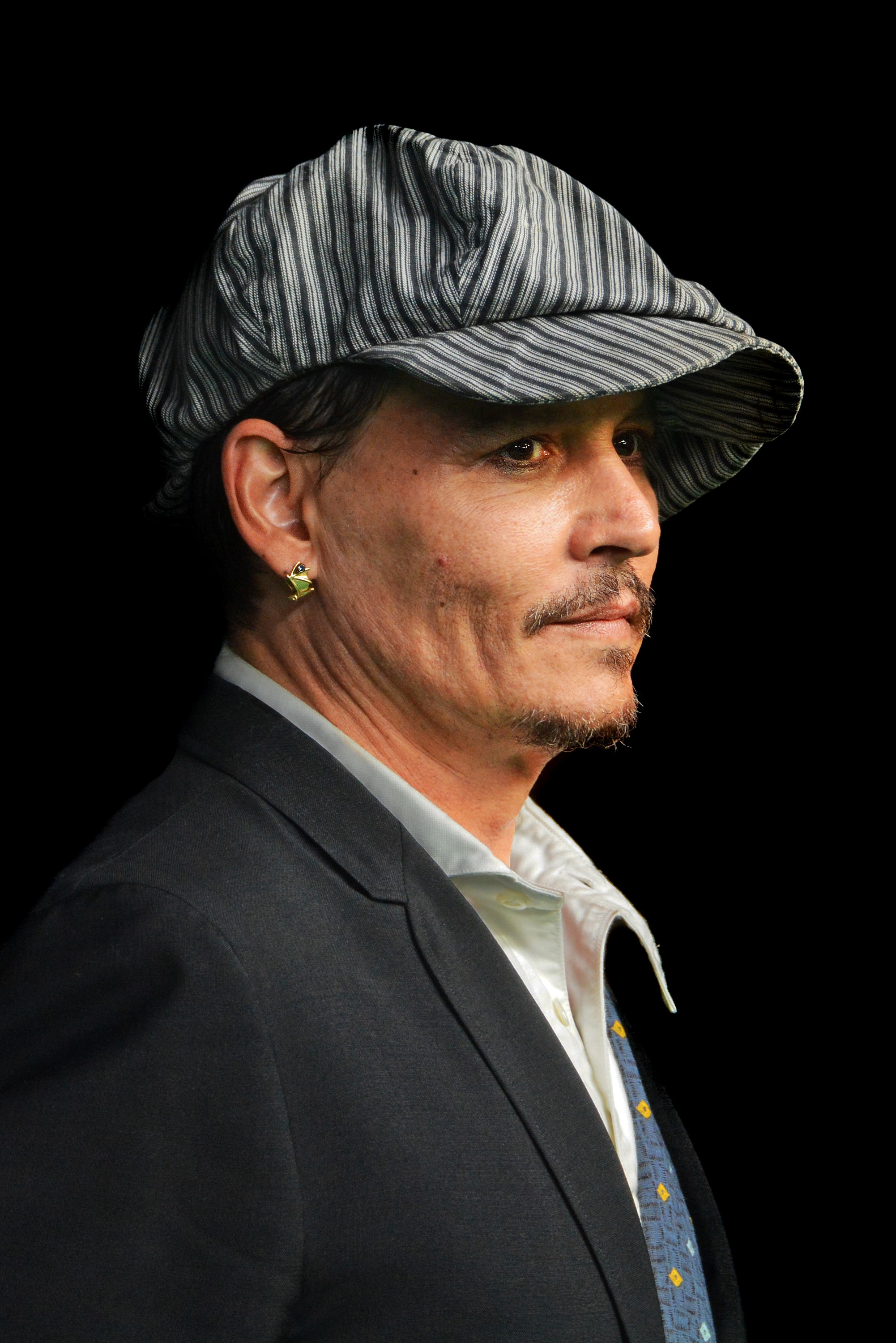 A cropped version of File:Johnny Depp (3).jpg